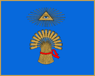 Flag of Plungė and Plungė district